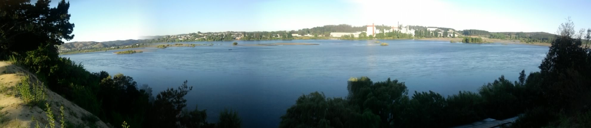 Vista a la comuna de laja y el rio bio bio